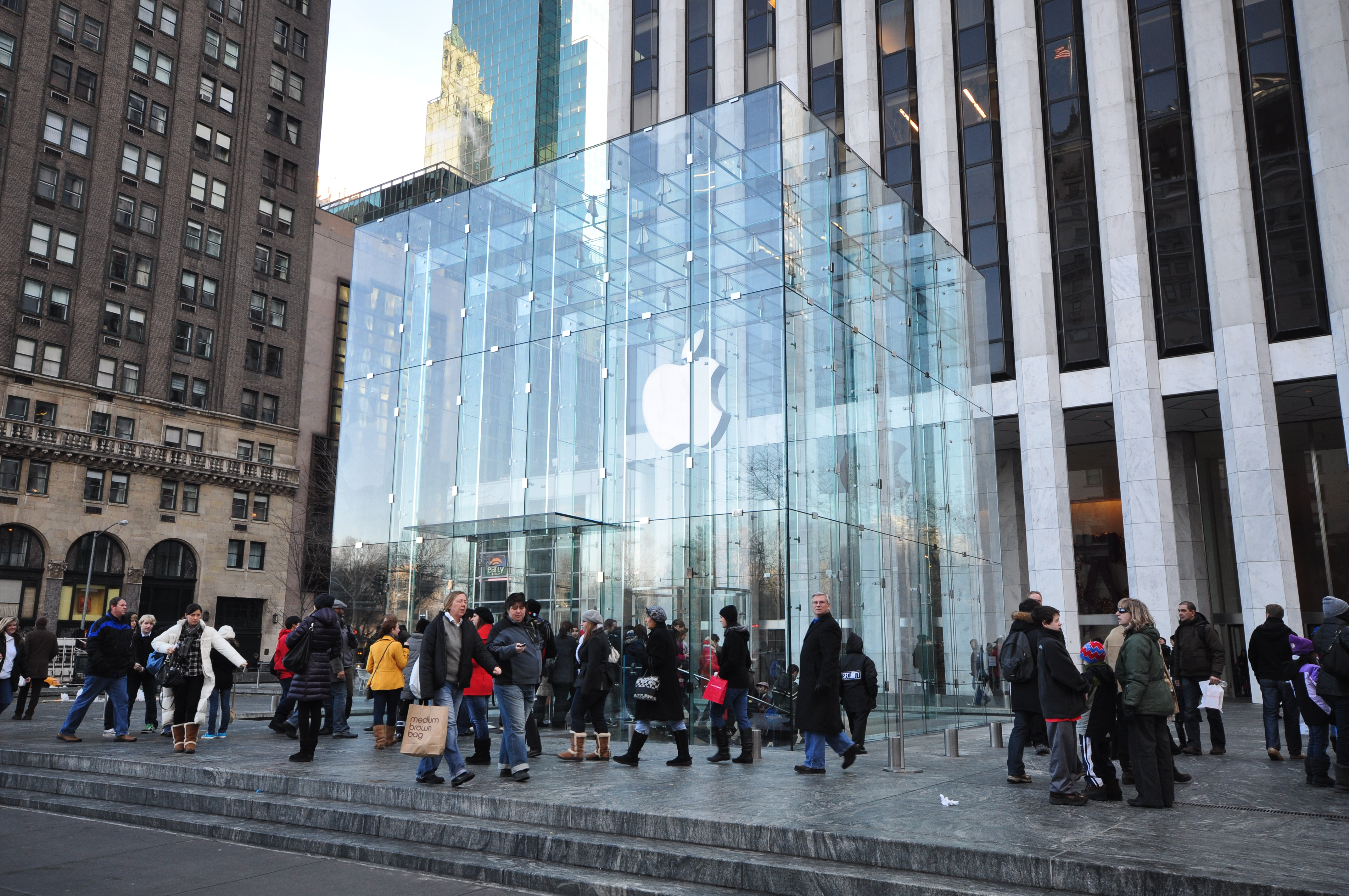 The Apple Retail Store is a chain of retail stores owned and operated by Apple Inc., dealing in computers and consumer electronics. The stores sell Macintosh personal computers, software, iPods, iPads, iPhones, third-party accessories, and other consumer electronics such as Apple TV [...] [...] Each store is designed to suit the needs of the location and regulatory authorities. Apple has received numerous architectural awards for its store designs, particularly its midtown Manhattan location on Fifth Avenue, whose glass cube was designed by Bohlin Cywinski Jackson. Several Apple Stores feature glass staircases, which for multi-level stores was originally intended to attract customers to visit the upper floors, and some even feature a glass bridge. The New York Times wrote that these features were part of then-CEO Steve Jobs' extensive attention to detail. The first glass staircase received a design patent in 2002 from the U.S. Patent and Trademark Office with Jobs' name first, followed by several others, while the staircase design itself received a design patent, and the complex glass and hardware system received a separate technical patent. Apple worked with architect Bohlin Cywinski Jackson and engineer Eckersley O’Callaghan Structural Design in designing the staircase